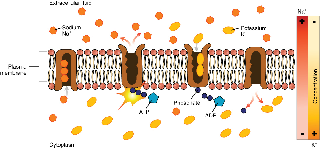 Illustration from Anatomy & Physiology, Connexions Web site. Jun 19, 2013.